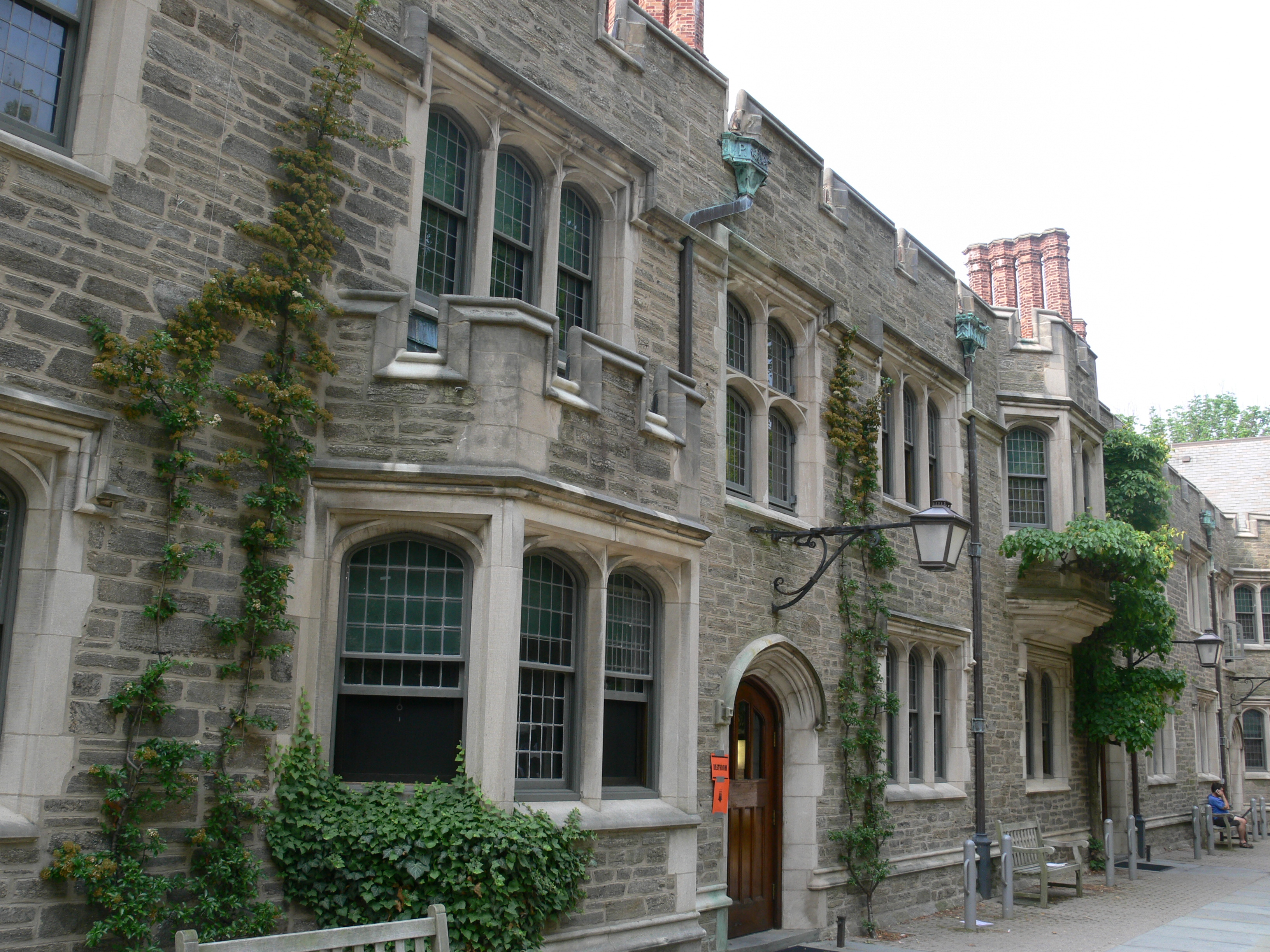 Buyer Hall (forming a part of Rockefeller College) Princeton University, Princeton, New Jersey